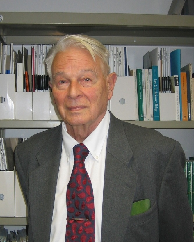 Prof. em. Dr. jur. Dr. jur. h.c. Wolfgang Fikentscher, LL.M.